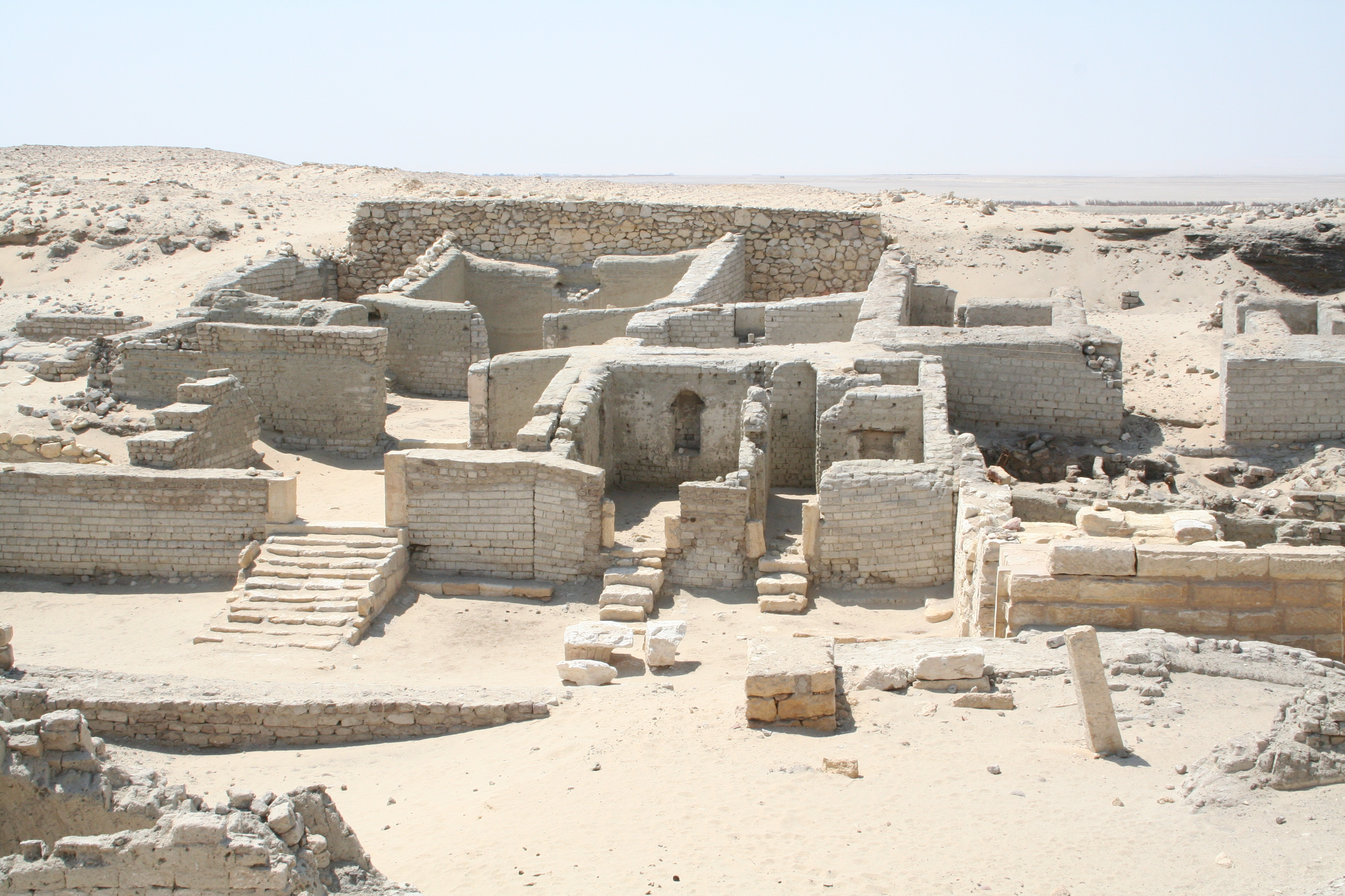 Ruins of Medinet Madi/Narmuthis